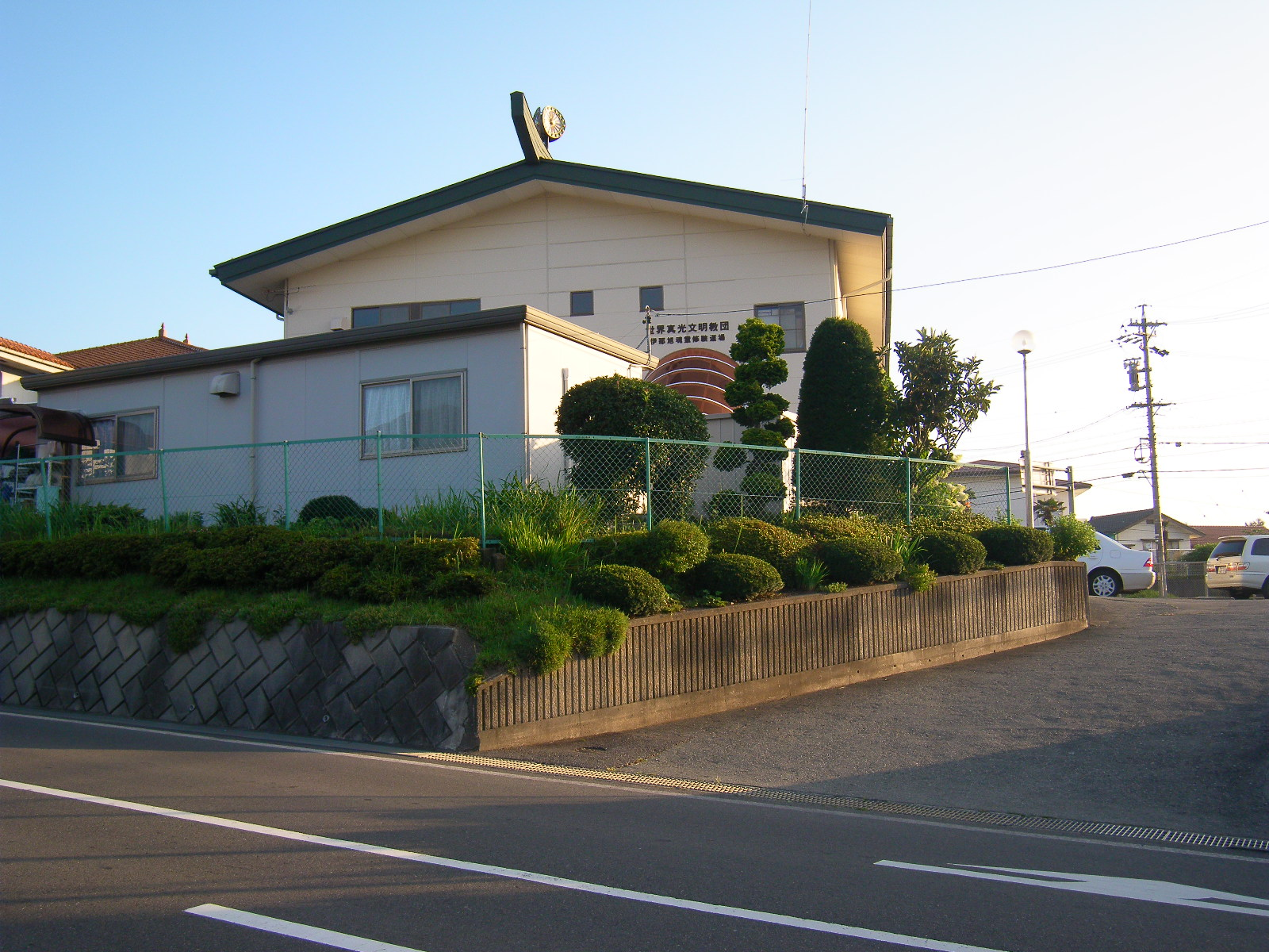 Ina Asahi Spiritual Practice Dojo of the World Divine Light Organization. Ina, Ina, Nagano prefecture, Japan.